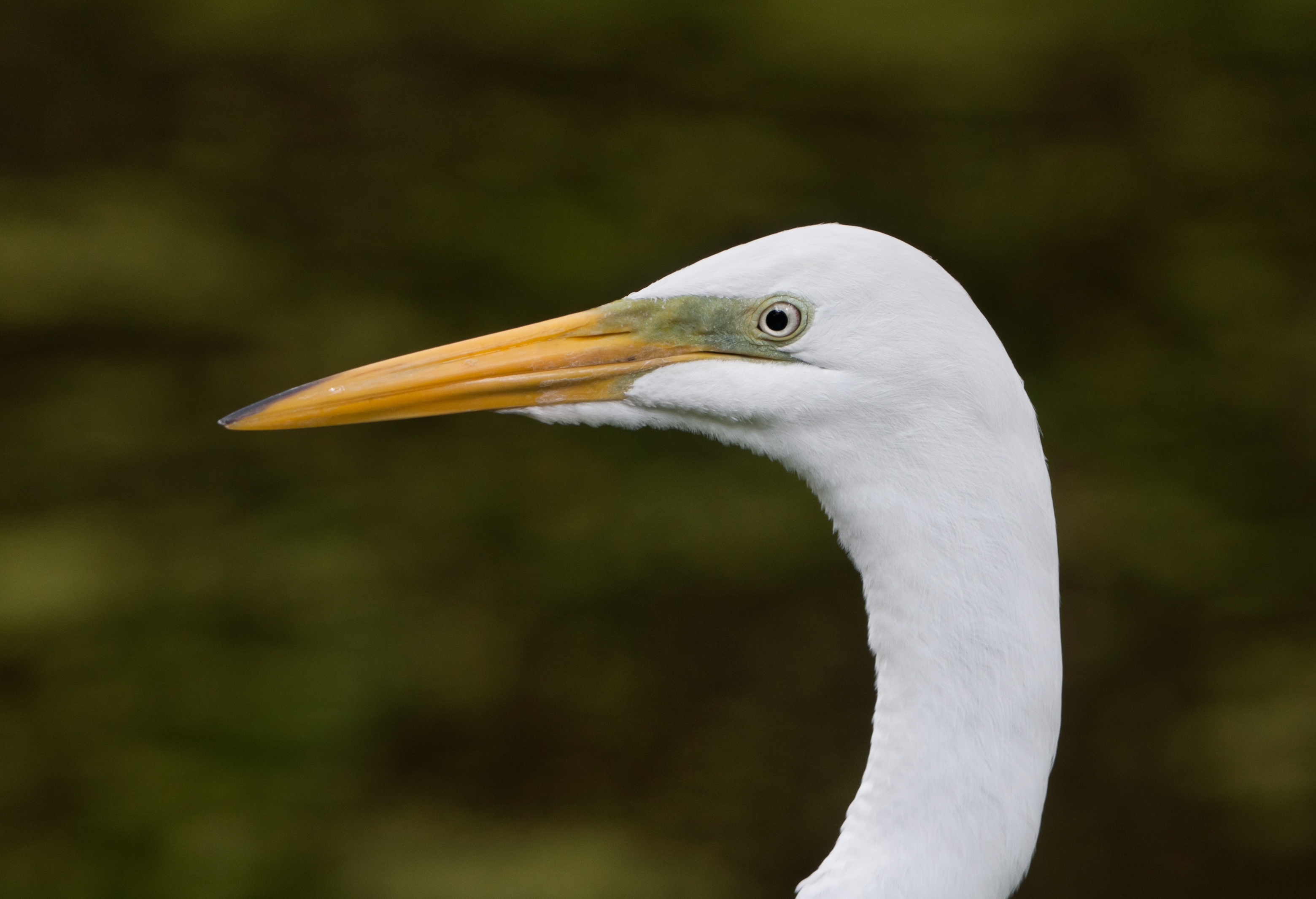 Casmerodius albus, found at Parque del Este, in Venezuela.